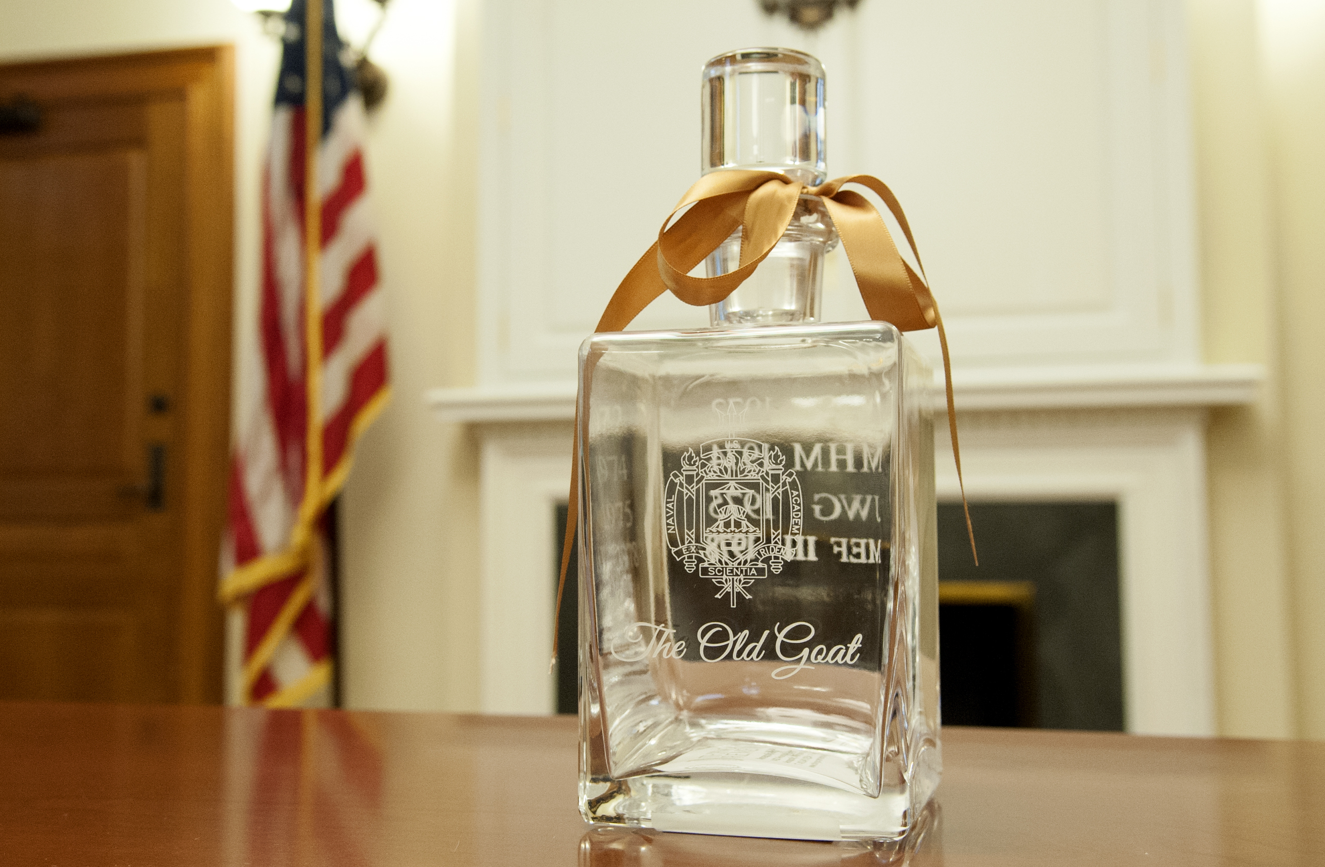 151002-N-TO519-001 ANNAPOLIS, Md. (Oct. 02, 2015) Photo depicts the U.S. Naval Academy's (USNA) Old Goat Award. This award is given to the oldest Naval Academy graduate still on active duty. Adm. Mark Ferguson, Commander, Allied Joint Force Command, and USNA Class of 1978, received the “Old Goat” award during a ceremony in King Hall at the U.S. Naval Academy Oct. 2. His initials and class year are engraved on the award along with those of former Deputy Chief of the Bureau of Medicine and Surgery Rear Admiral Alton L. Stock, MC, USN, Class of 1972, who retired on March 28, 2014; former USNA Superintendent Vice Admiral Michael H. Miller, Class of 1974, who retired on August 1, 2015; and former Chief of Naval Operations Admiral Jonathan Greenert, Class of 1975; who retired on Sept. 18, 2015. (U.S. Navy photo by Mass Communications Specialist 2nd Class Nathan Wilkes/Released)